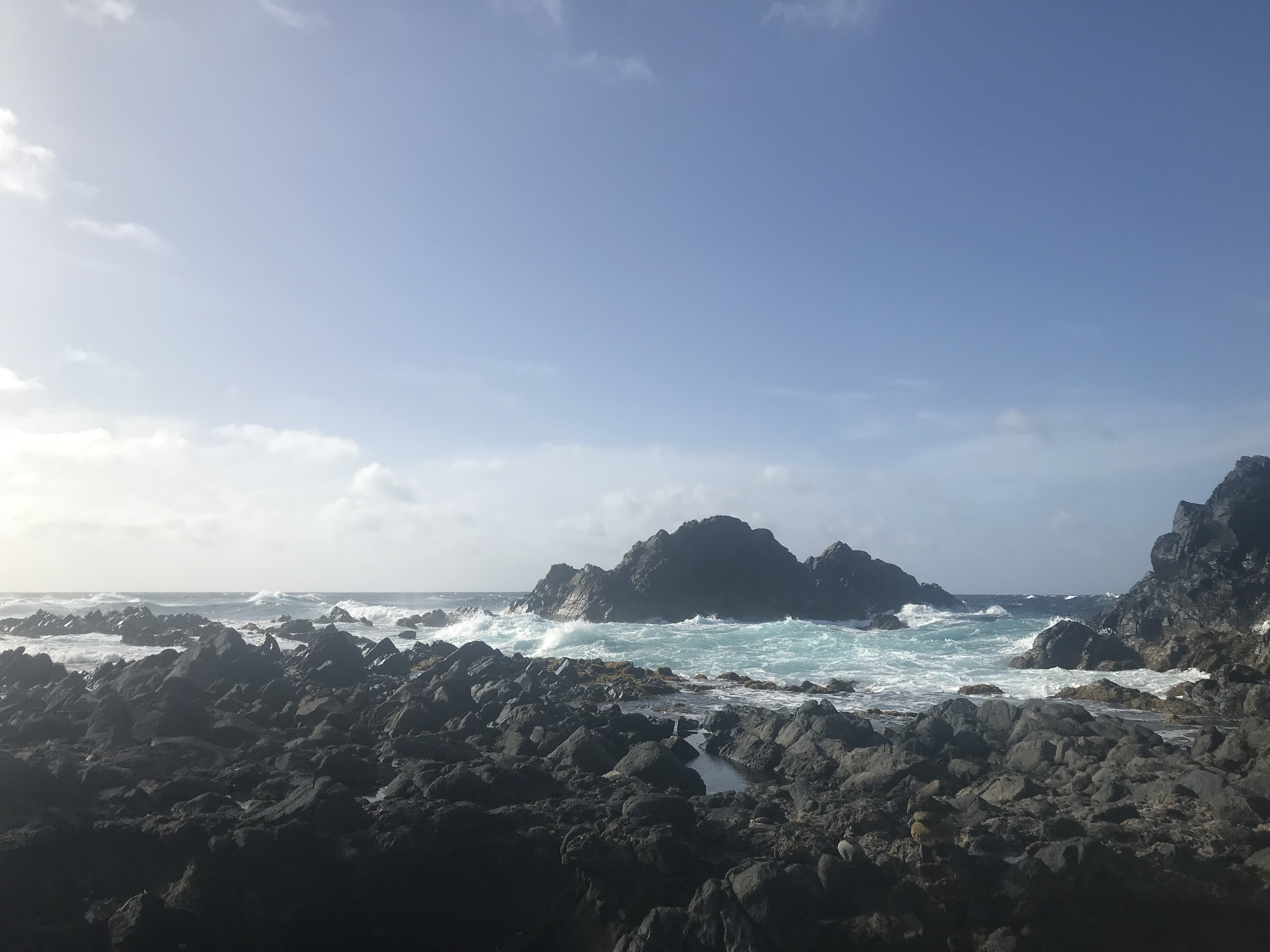 Natural Pool located in Santa Cruz, Aruba